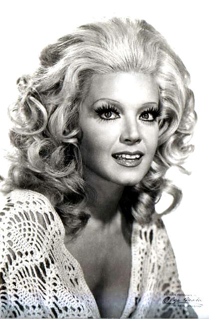 Mariquita Gallegos- actriz y vedette